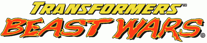 Text-only logo of the media franchise. Simple letters with inverse yellow outline and red fill. Trademarked to Hasbro.